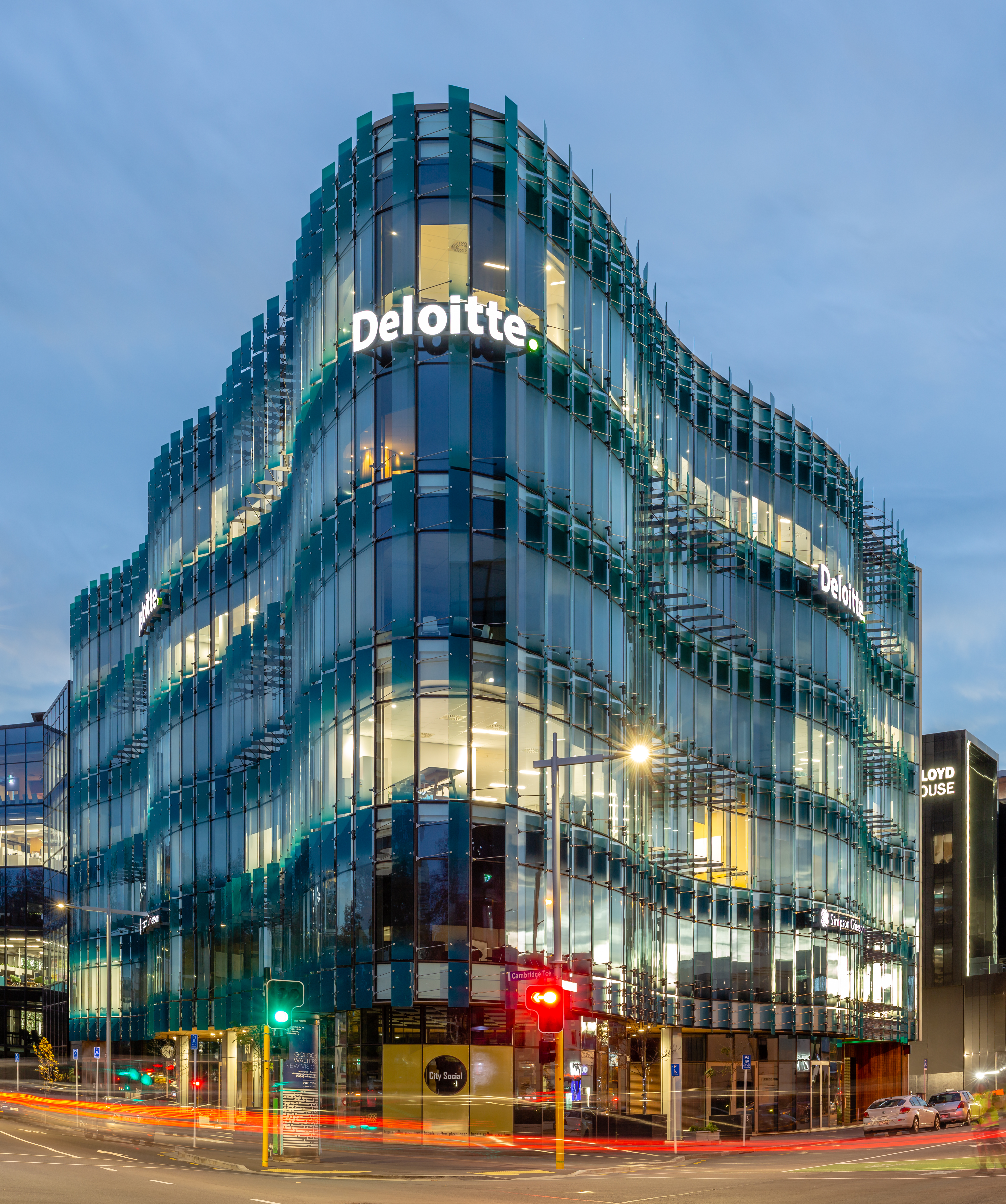 Deloitte Building during the blue hour, Christchurch, New Zealand